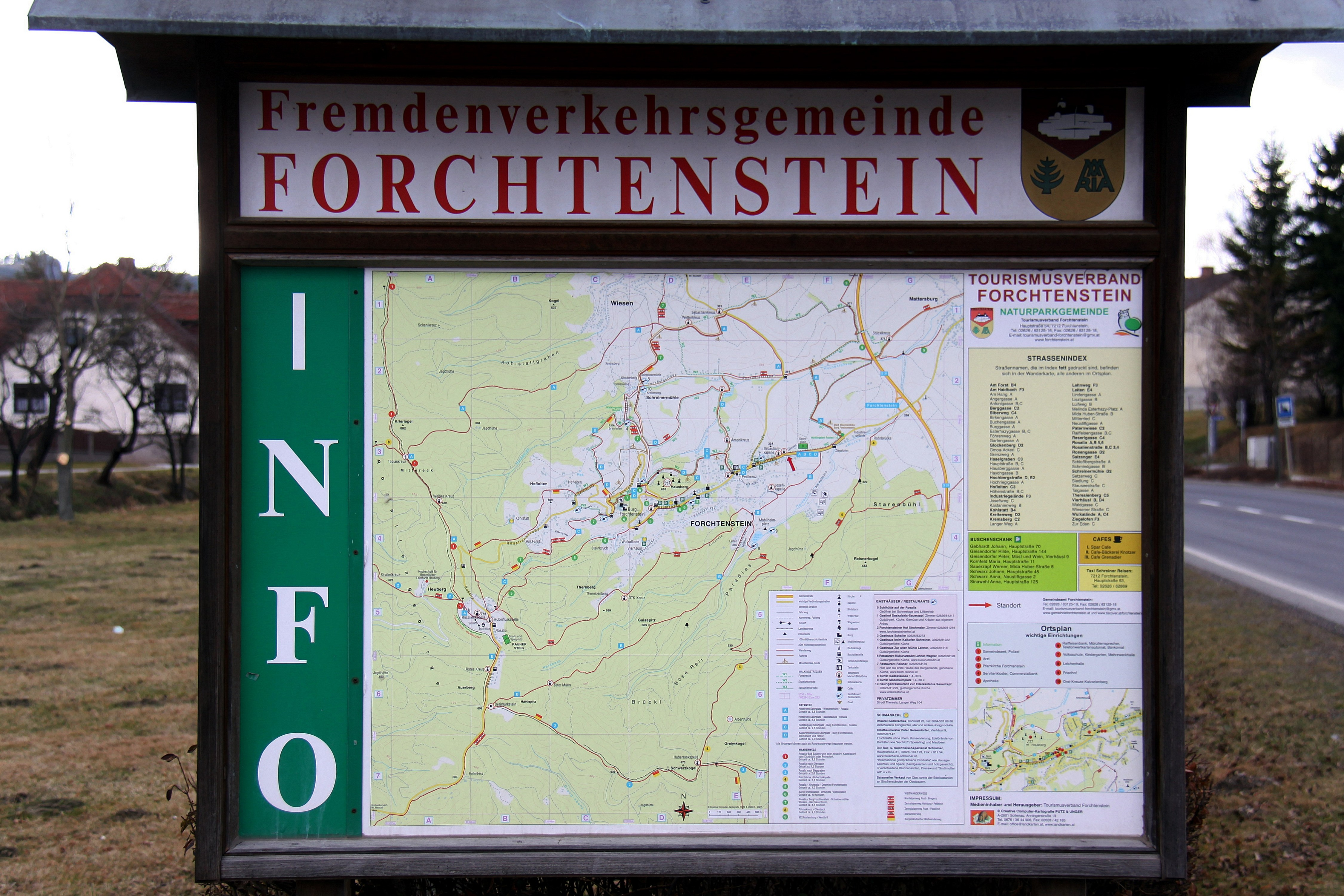 Map of Forchtenstein Object location47° 42′ 57.63″ N, 16° 21′ 38.06″ E